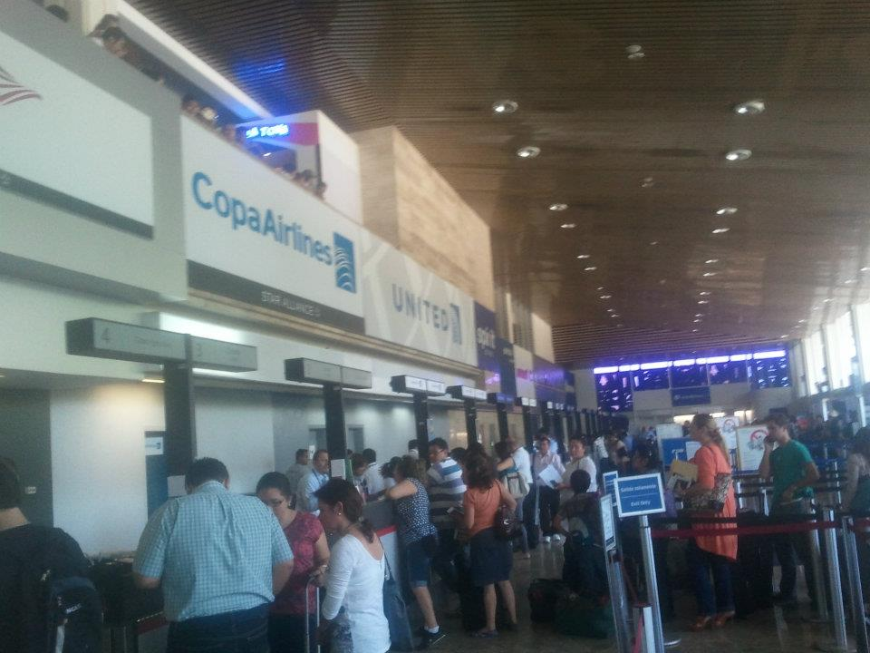 airport of El Salvador departure Check-in